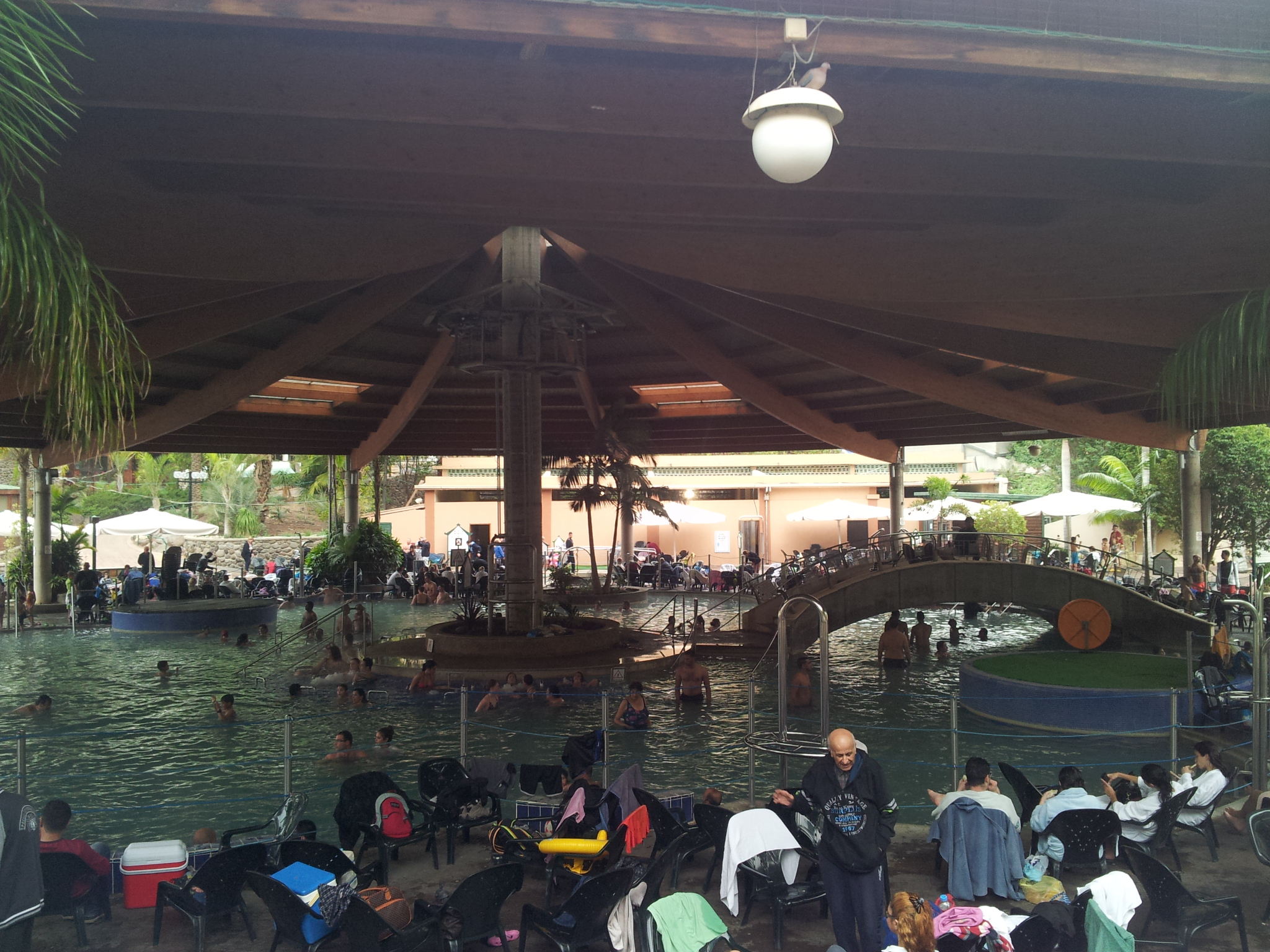 חמת גדר 2014